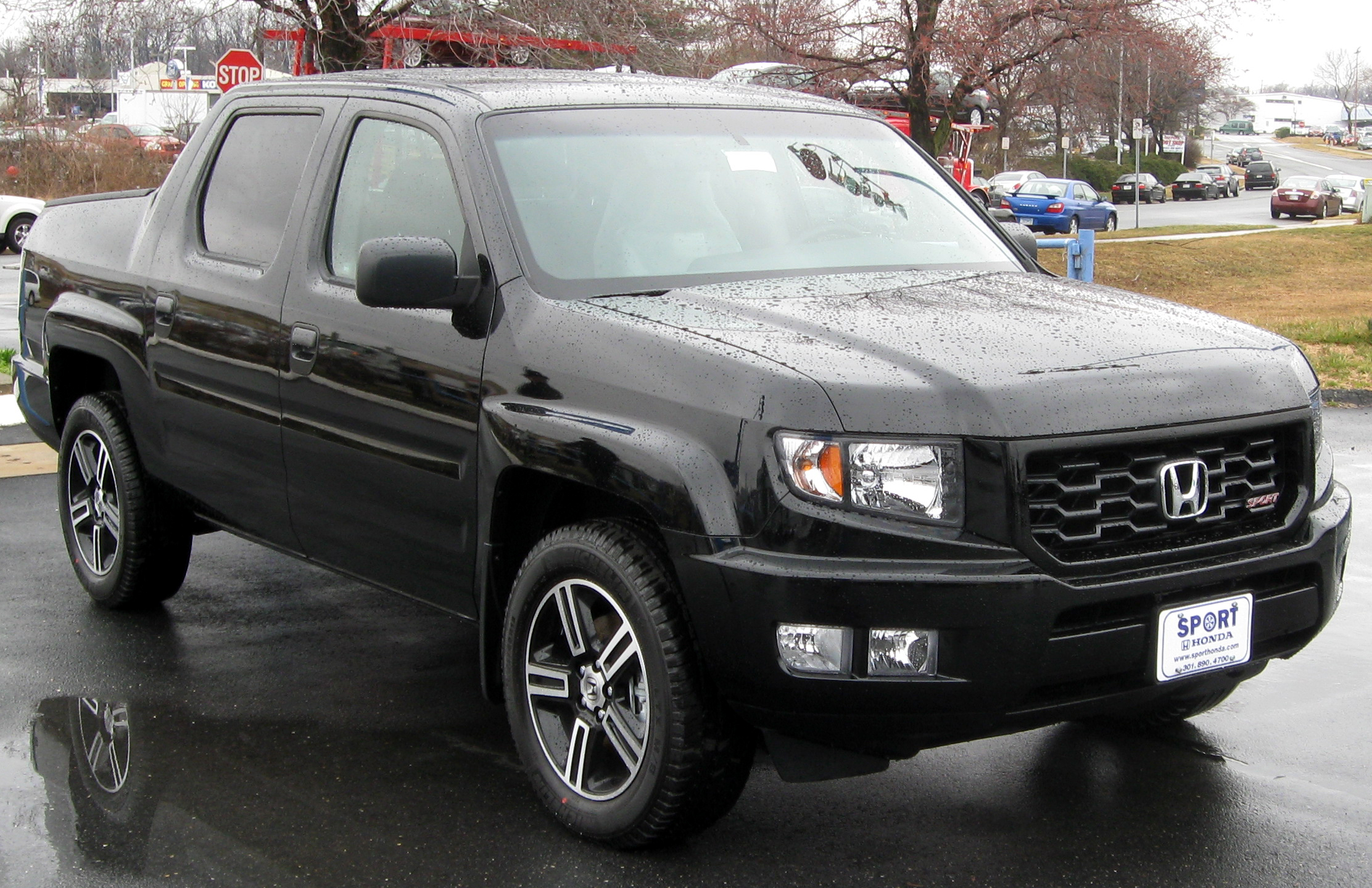 2012 Honda Ridgeline photographed in Silver Spring, Maryland, USA.